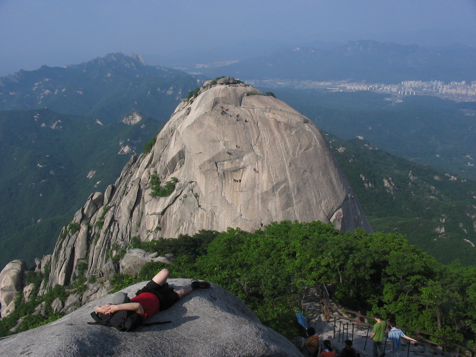 Insoo Peak in Bukhan Mountain, Seoul, Korea